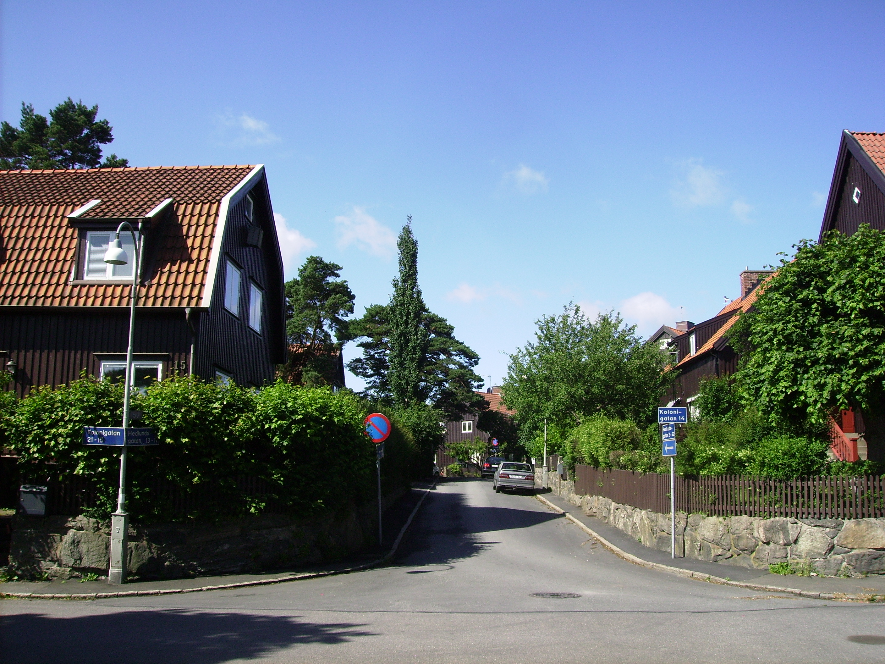 Picture of Landala egnahem in Gothenburg